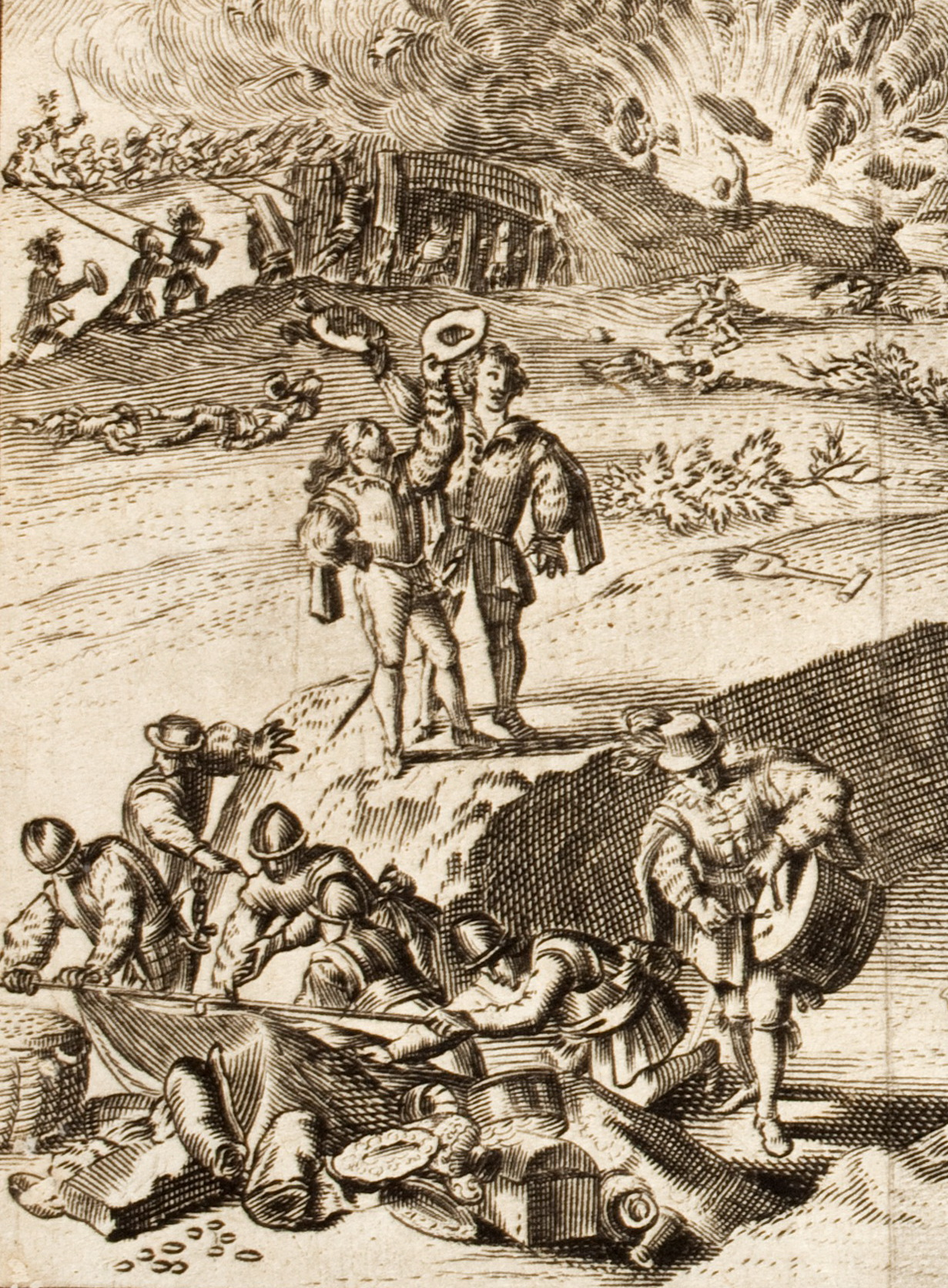 The Spanish army led by Alexander Farnese, duke of Parma, before Maastricht in June 1579. Detail of a 17th-century engraving depicting the Siege of Maastricht in 1579. Engraving by Pierre Du Ryer (ca.1606-1658) in the historical work De Bello Belgico decades duae, 1555-1590 by Famiano Strada (1572-1649), published in 1632. Collection of the Peace Palace Library, The Hague.